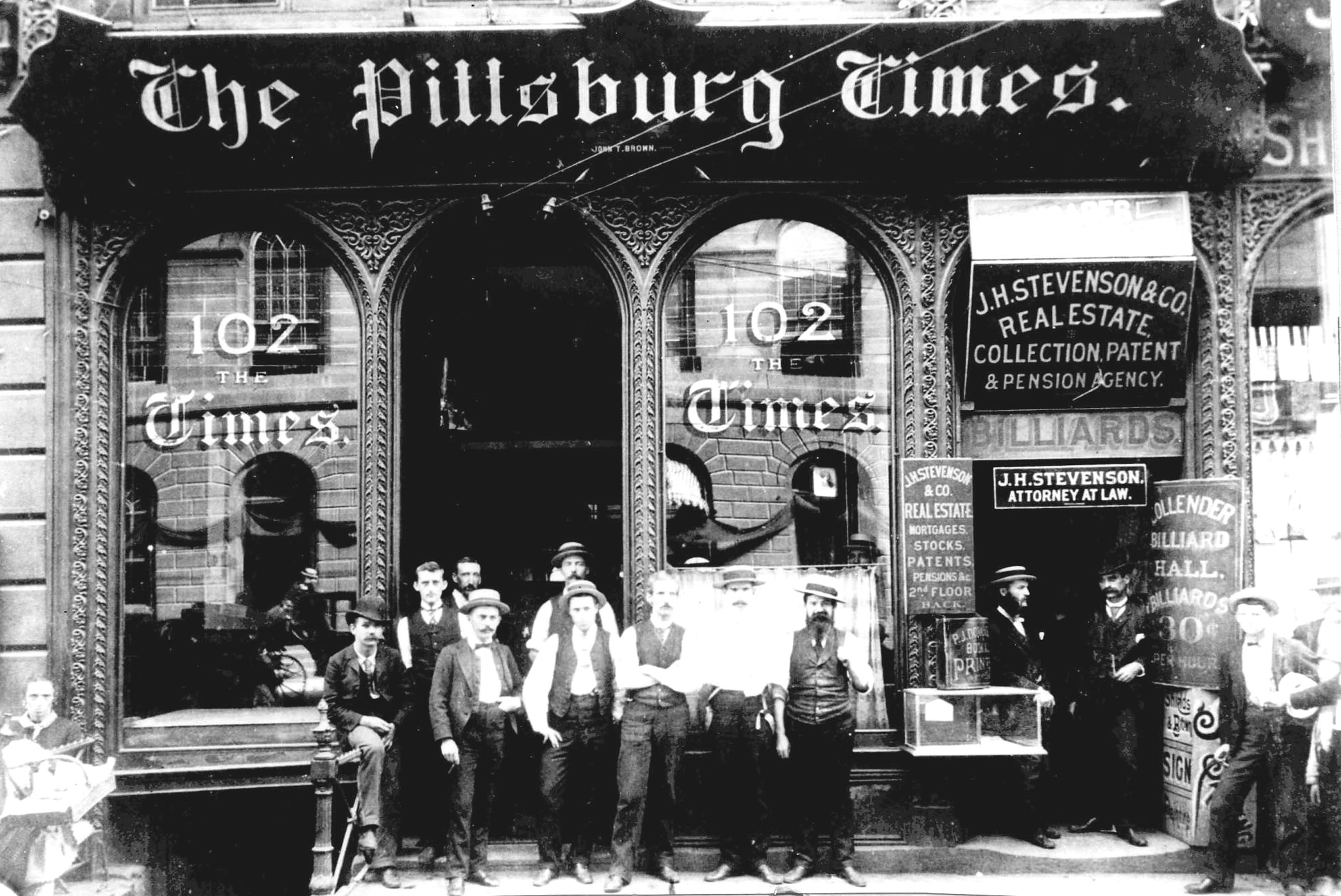 Office and staff of The Pittsburg Times, 102 Fifth Avenue, July 1885. Published 6 January 1963 (George Swetnam, "Picture Detective Work", The Pittsburgh Press Sunday Roto, p. 26) without copyright notice.